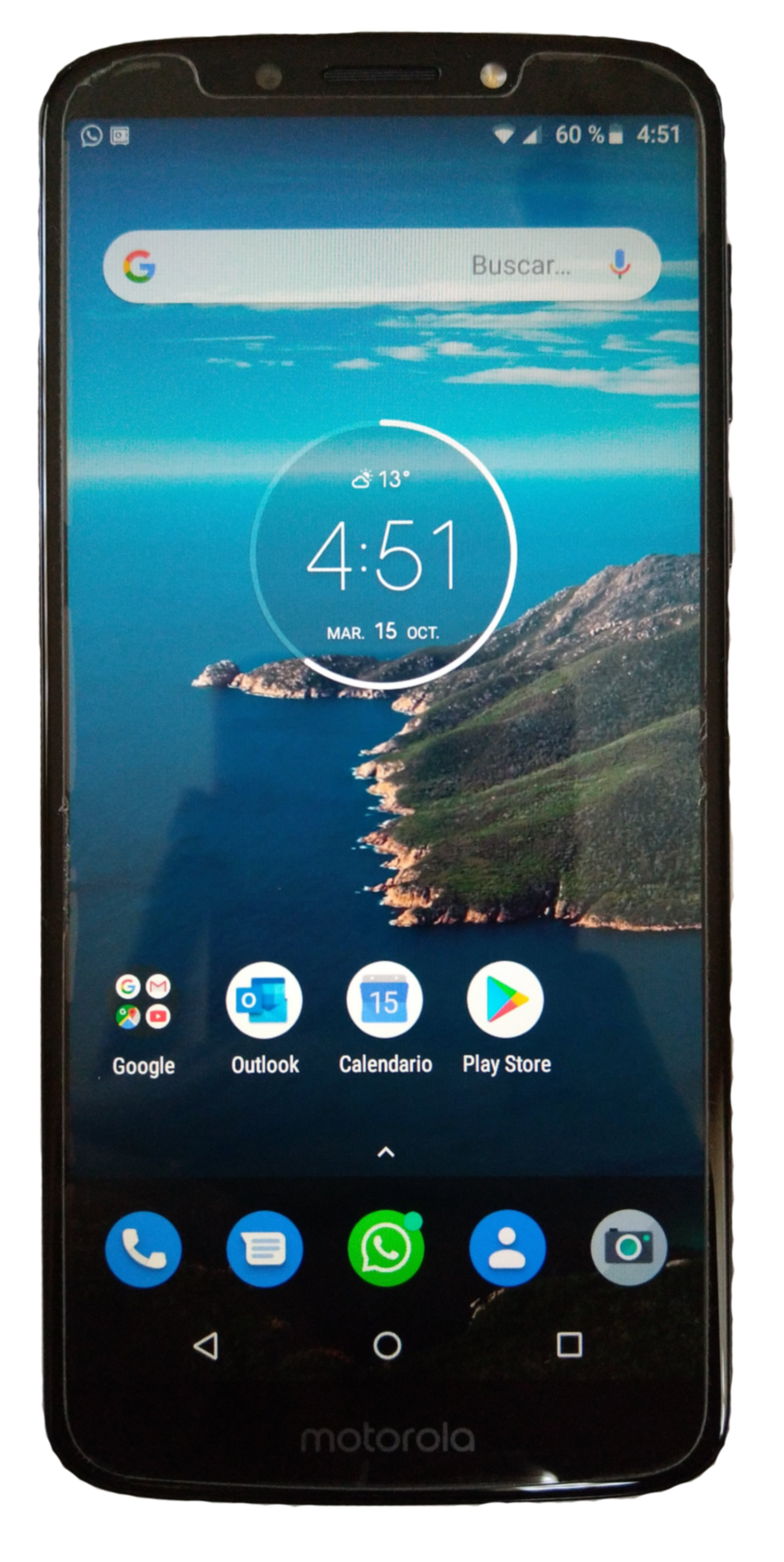 Motorola Moto E5 Plus, running its version of Android 8.0.0 Oreo; showing your home screen with Pure Android experience, in this case with the Spanish language, also showing with its 6-inch screen